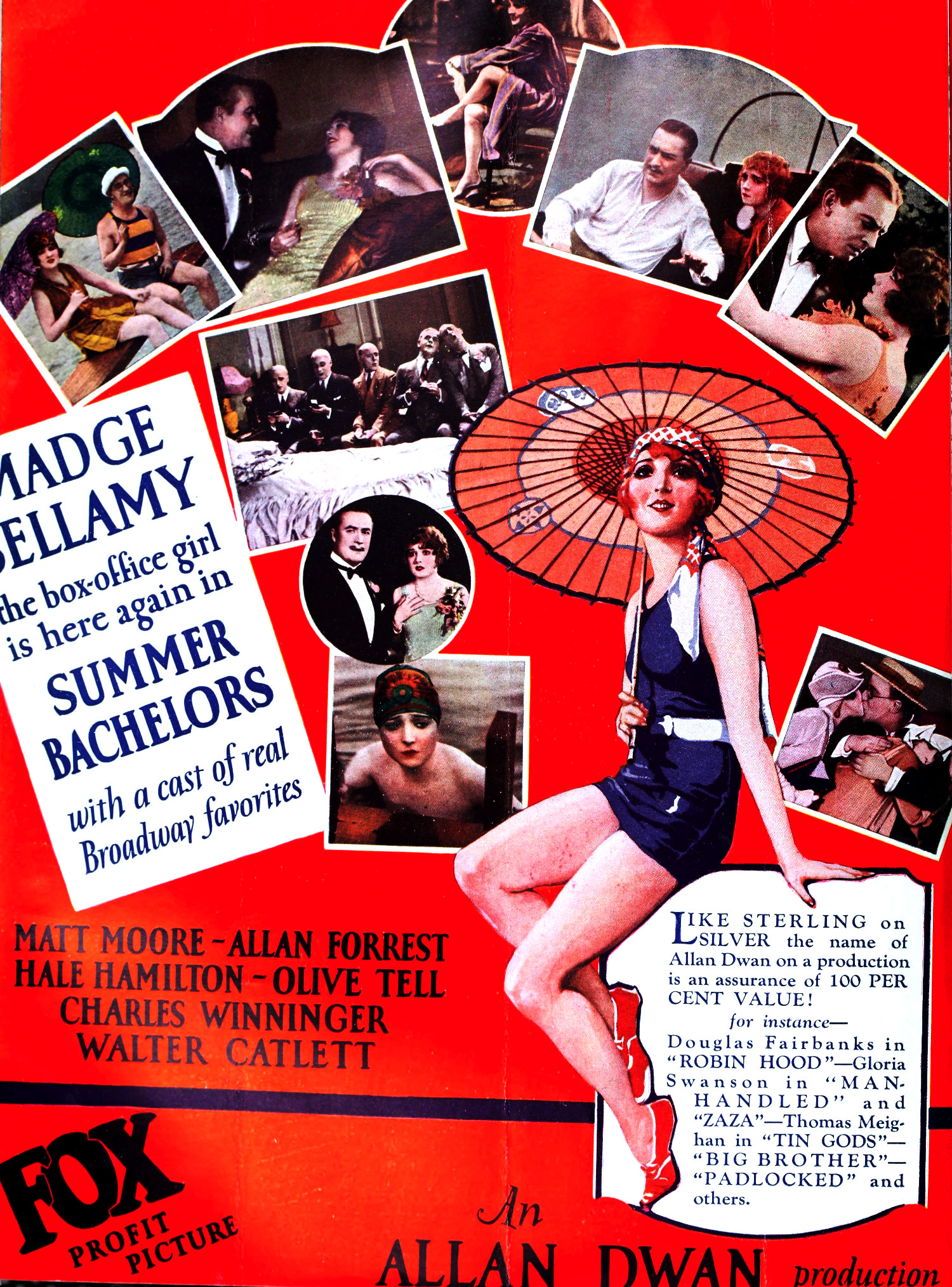 Copy of an ad for the 1926 film SummerBachelors from the publication The Film Daily. Fox did not mark the ad as copyrighted; copyrights for The Film Daily would not apply to the ad. (A check of periodical renewals for the years 1953 and 1954 indicate The Film Daily did not renew their copyright for 1926 issues of the trade journal.) There are no copyright marks on the ad. US Copyright Office page 3-magazines are collective works (PDF) "A notice for the collective work will not serve as the notice for advertisements inserted on behalf of persons other than the copyright owner of the collective work. These advertisements should each bear a separate notice in the name of the copyright owner of the advertisement."